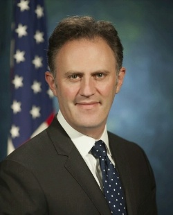 Nathan Sales official photo